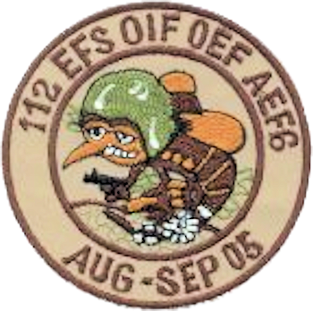 112th Expeditionary Fighter Squadron Operation Iraqi Freedom/Operation Enduring Freedom